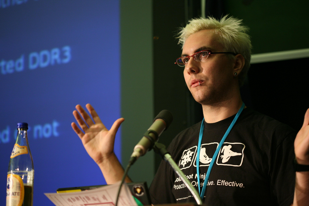 Jacob Appelbaum aka ioerror at the Last H.O.P.E. Hacker's conference, Hotel Pennsylvania, NYC